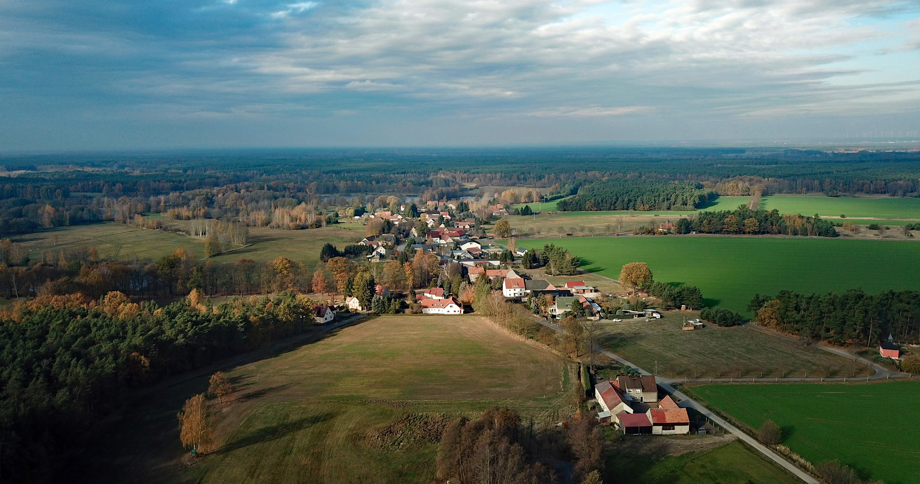 Zeisholz (Schwepnitz, Saxony, Germany)